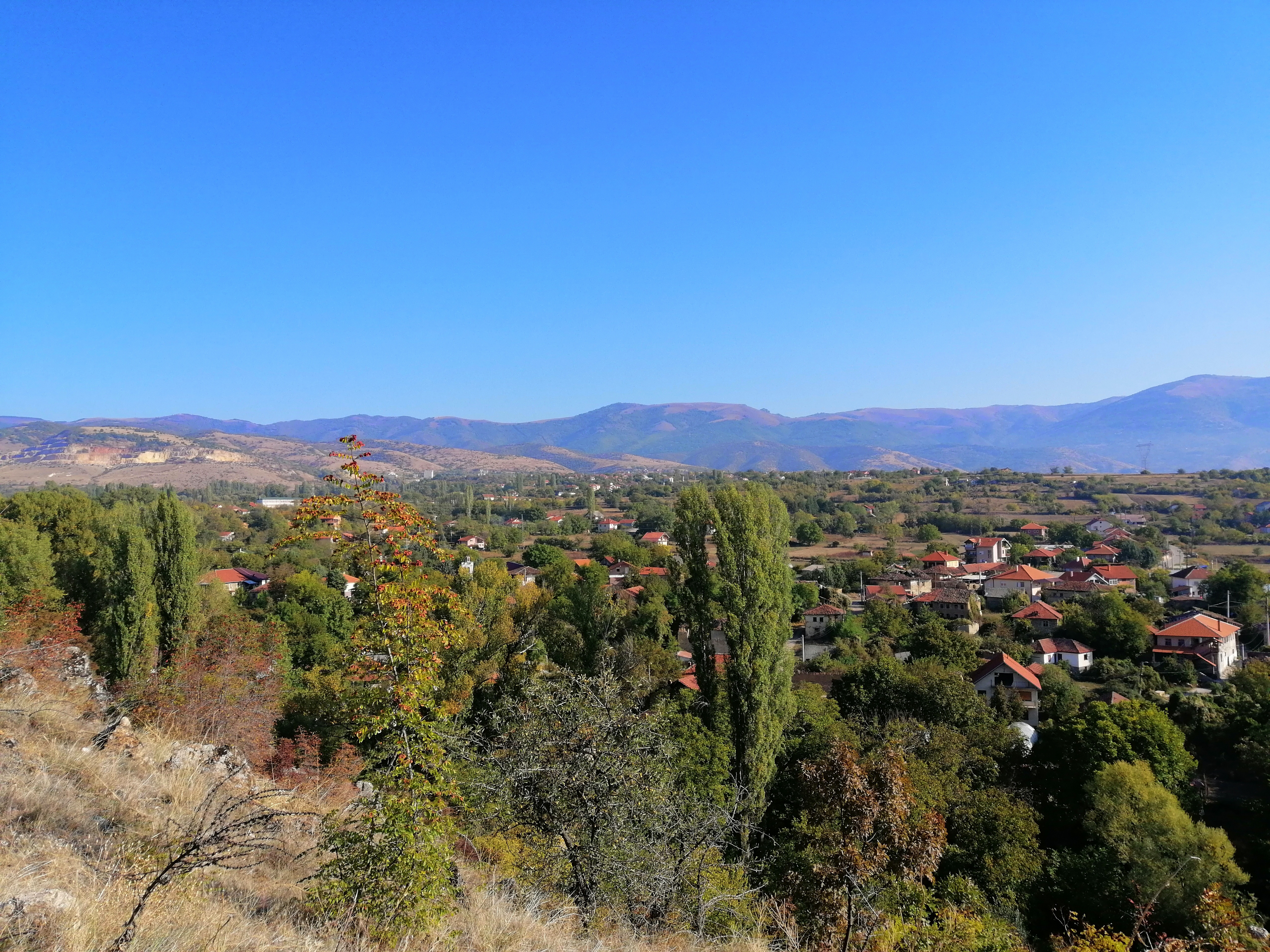 Panoramic view of the villages Gluvo, Banjane and Mirkovci